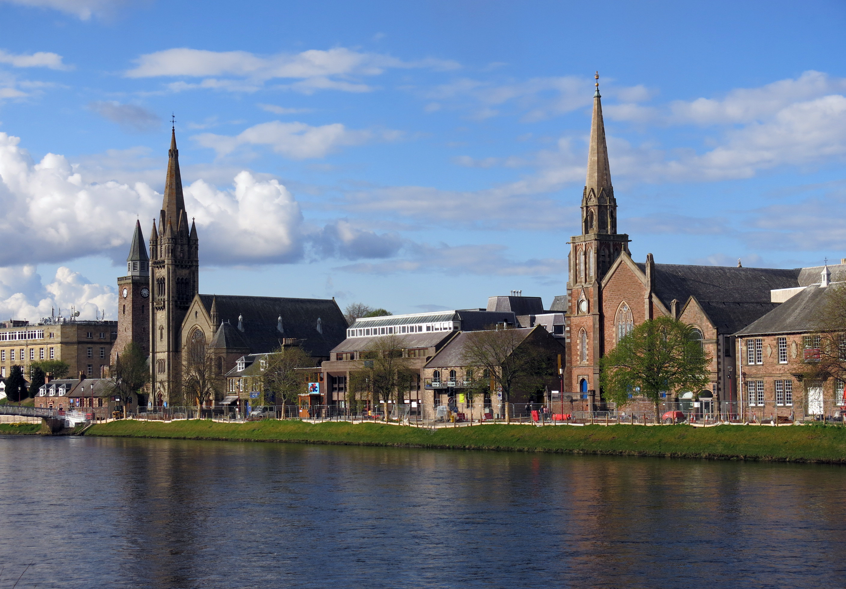 Inverness, Inverness, Bank Street, Free North Church Of Scotland.